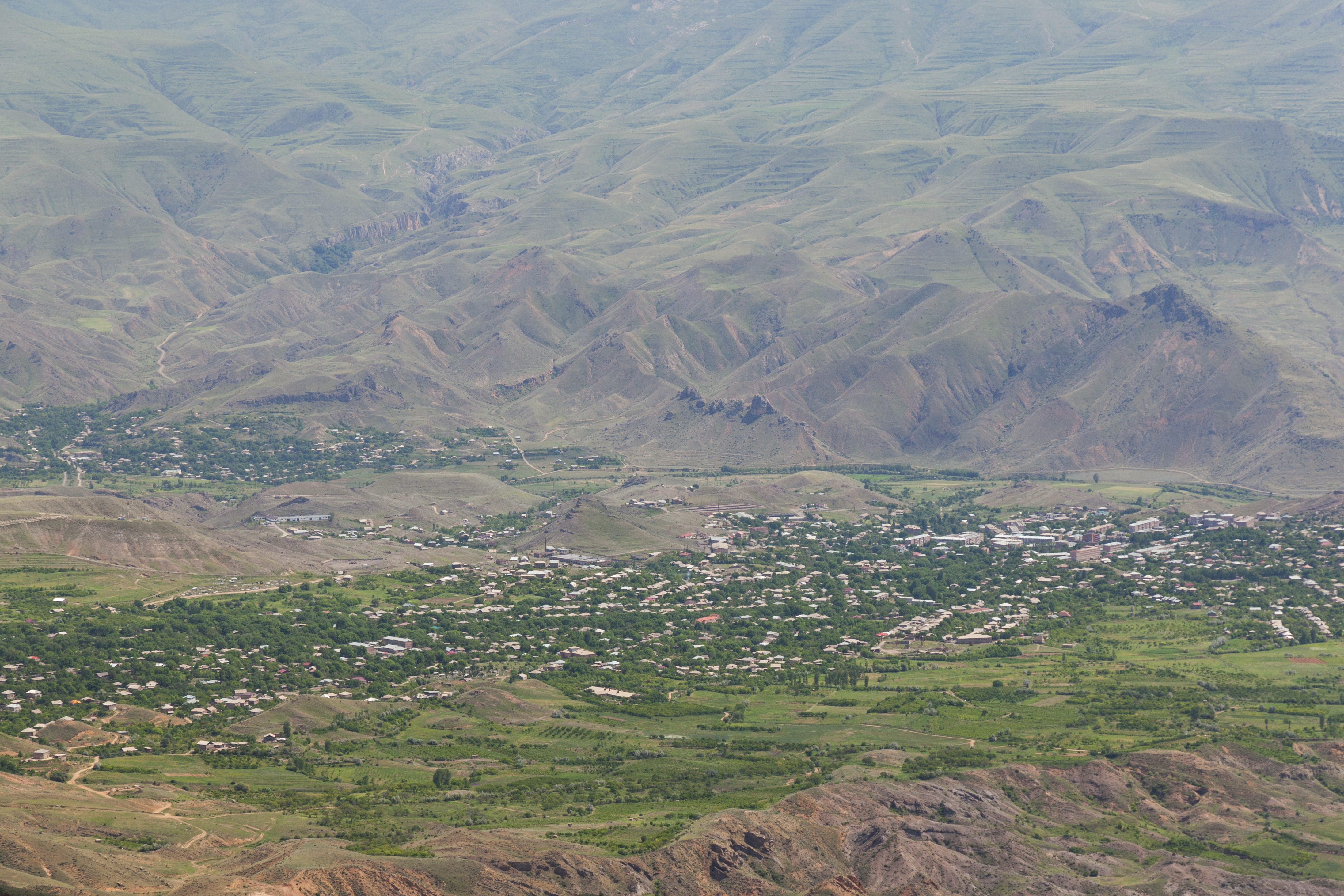 The views from the tourist route from Spitakavor monastery to the Shatin village. Vayots Dzor Province, Armenia.